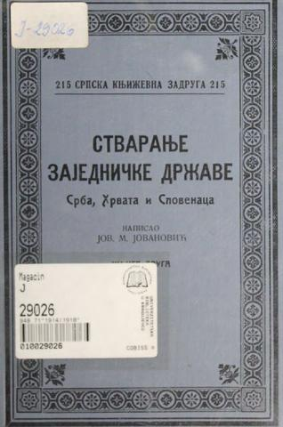 Stvaranje zajedničke države SHS, II